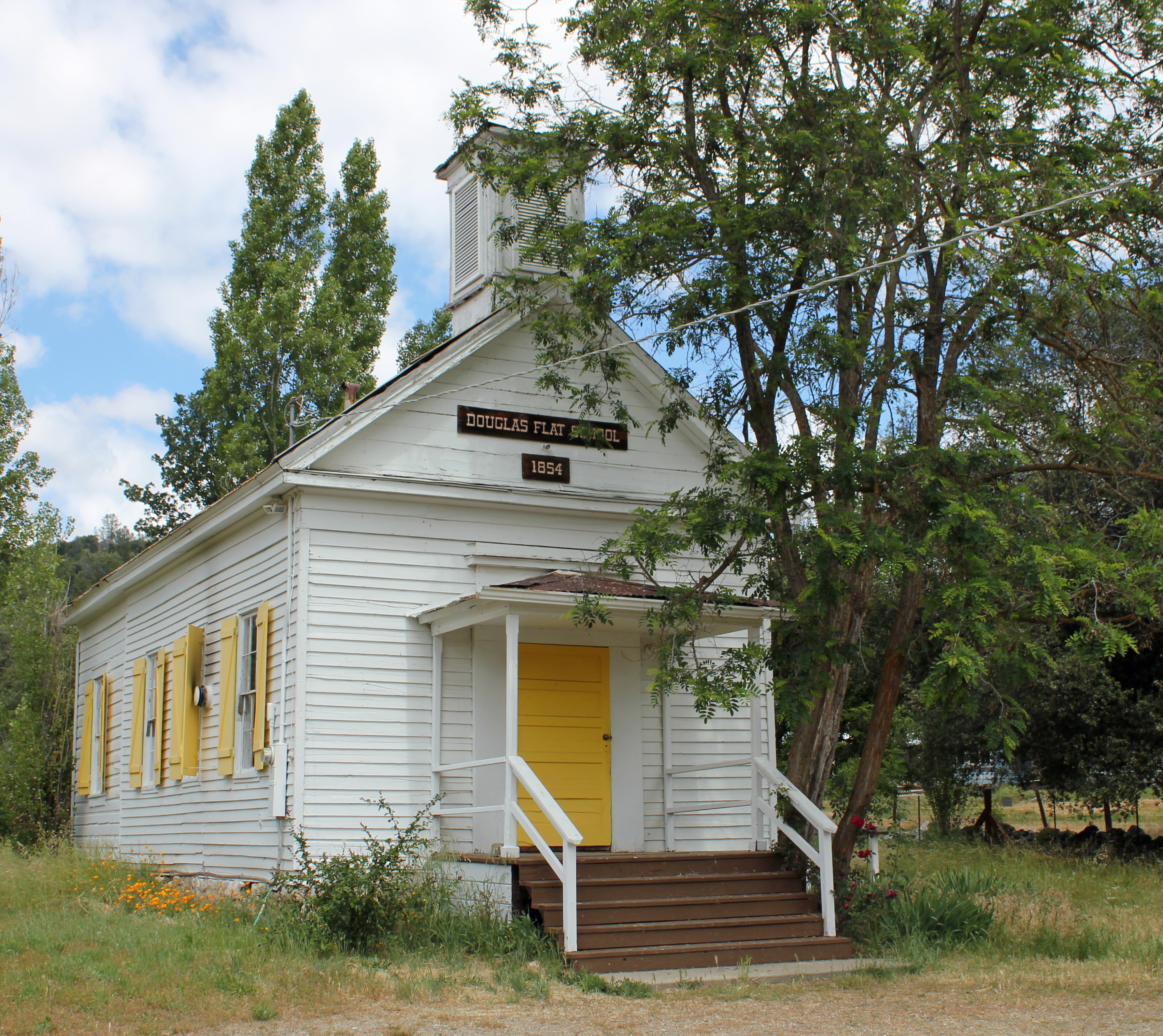 The Douglas Flat School, located off of Main Street in Douglas Flat, California. The property is listed on the National Register of Historic Places.